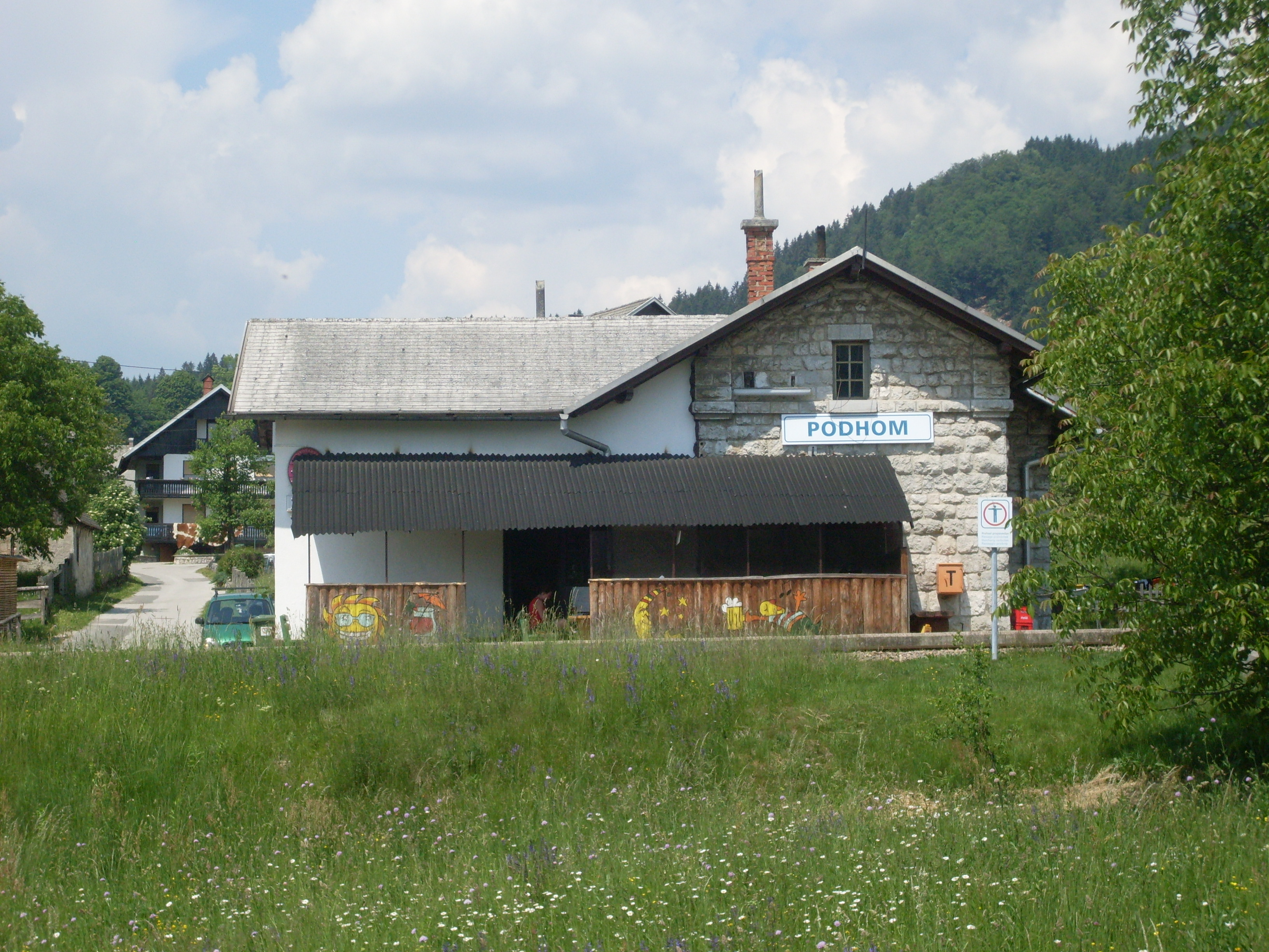 Railway halt in Podhom, SloveniaSlovenščina: Železniško postajališče Podhom